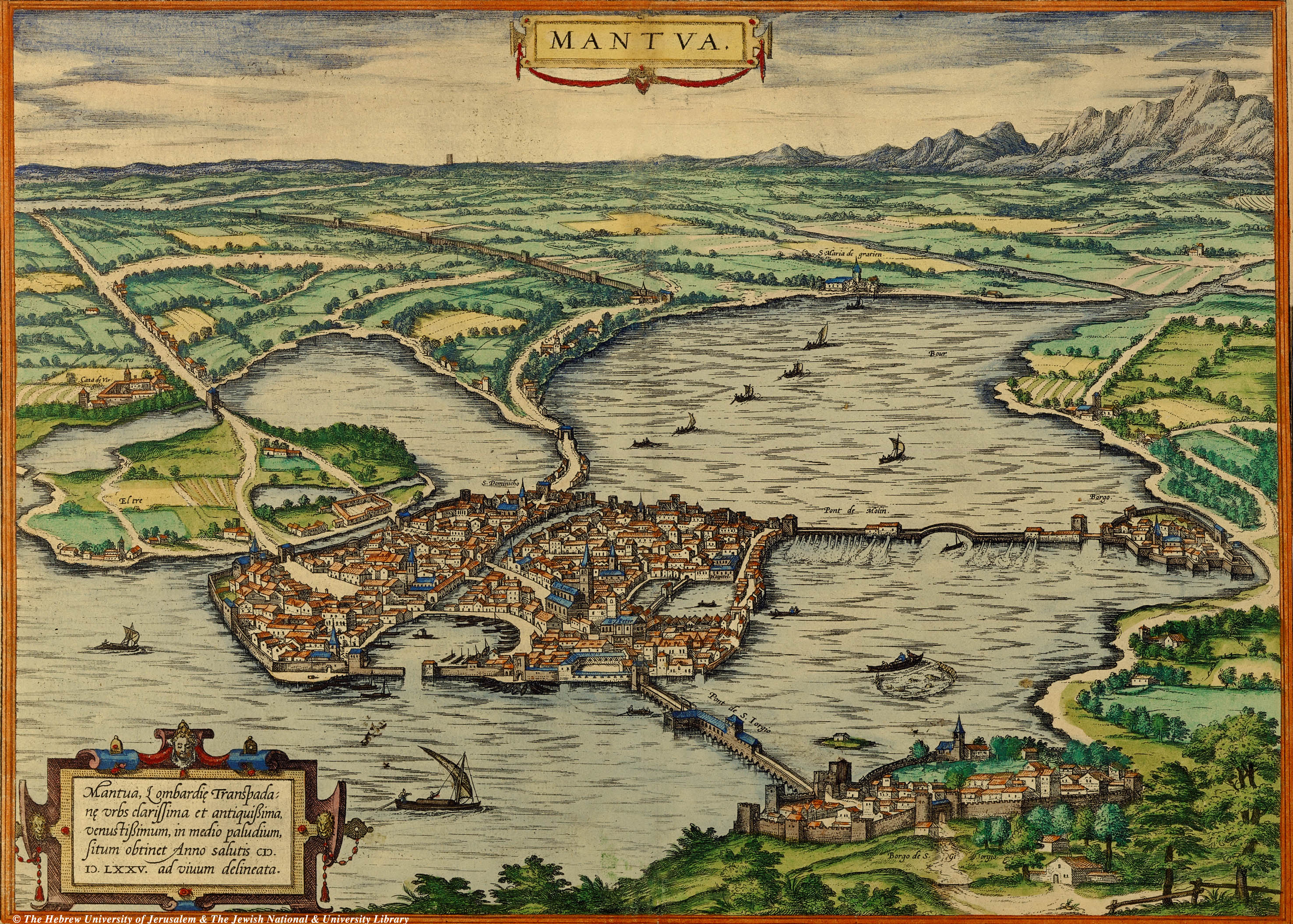 Bird-eye view of Mantua, from Civitates Orbis Terrarum, vol. II, 50, published 1575, Edited by Georg Braun and engraved by Franz Hogenberg.